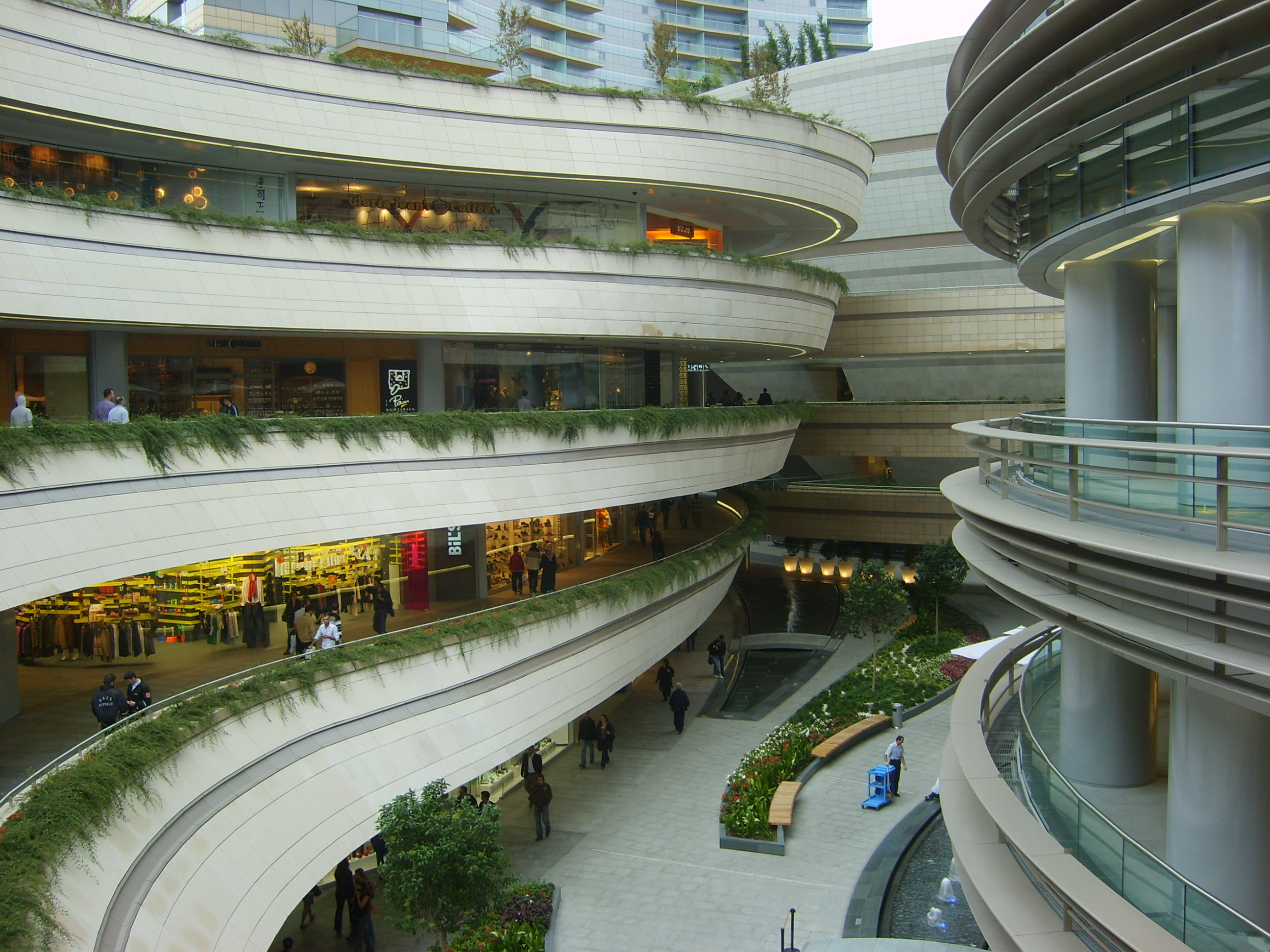 Kanyon Shopping Mall in Istanbul.